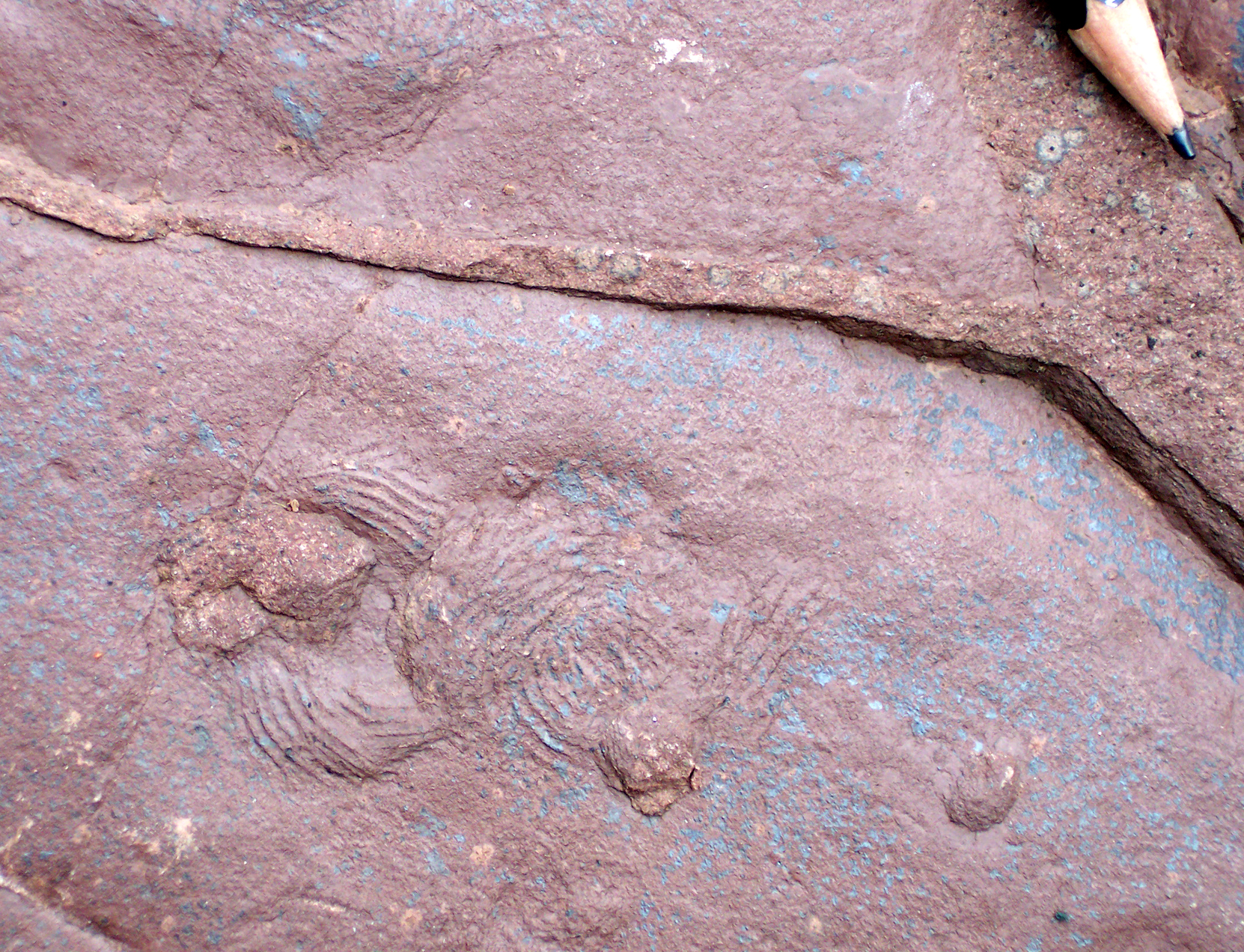 The trace fossil Tambia spiralis on the lower surface of a layer of the Tambach Sandstone exhibited at the Bromacker quarries at the outskirts of Tambach-Dietharz, Thuringia, Germany. The cast of a mudcrack runs through the upper half of the image.